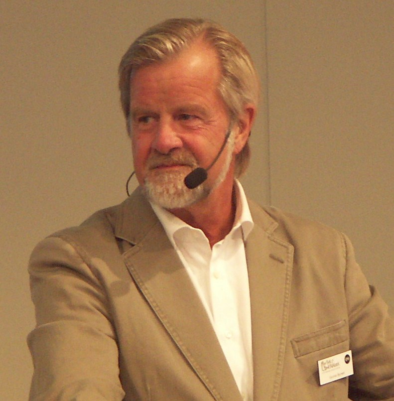 Swedish university professor in Molecular biology, Gunnar Bjursell of Gothenburg university.